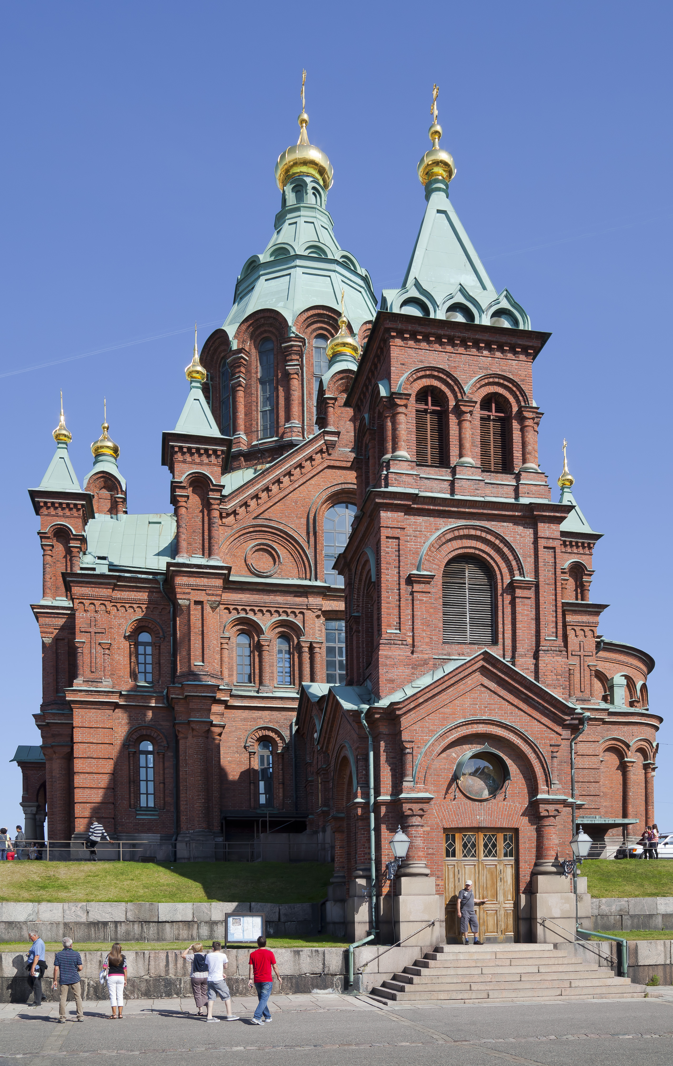 Uspenski Catedral, Helsinki, Finnland